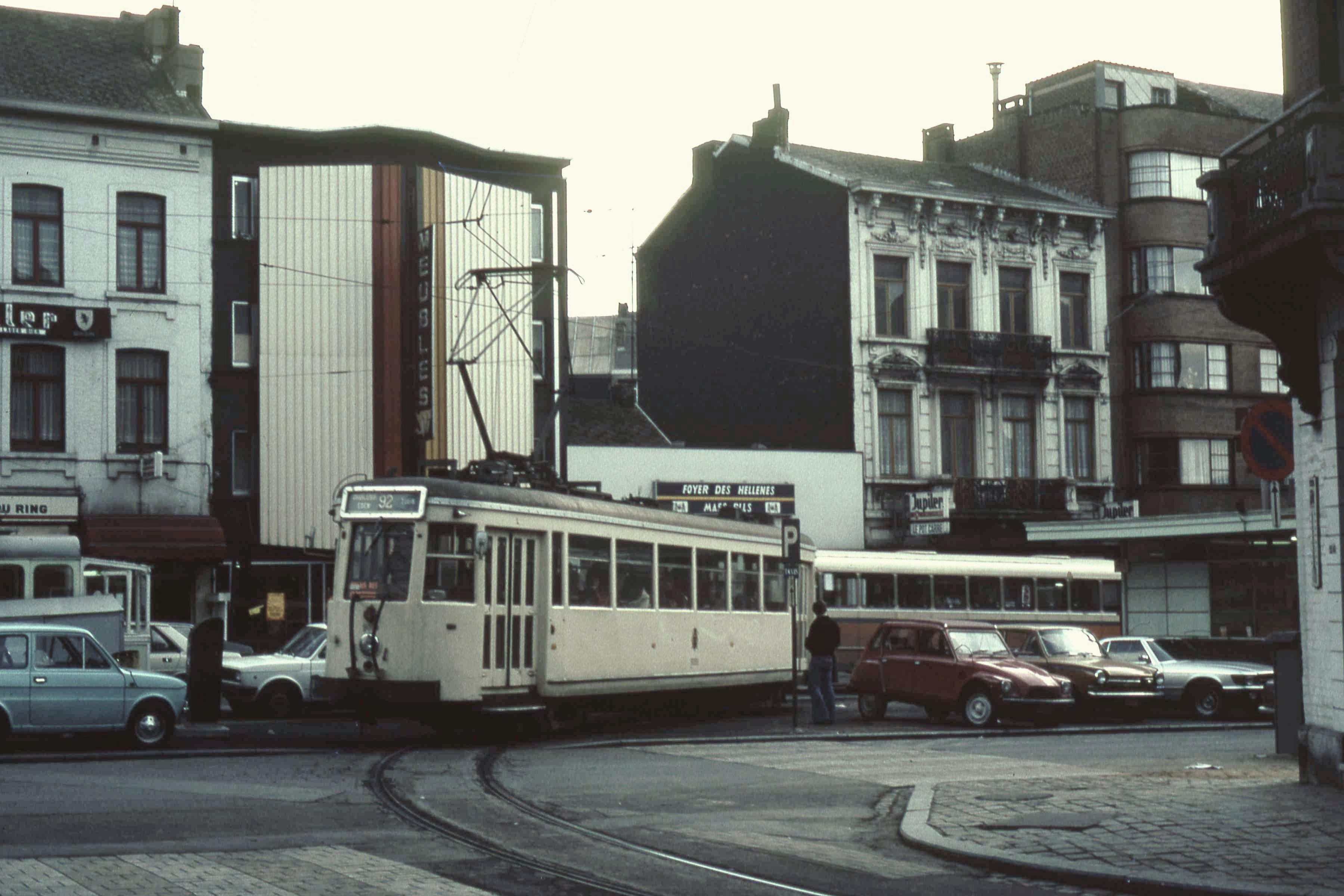 SNCV tram 92 leaving for Thuin via Anderlues, from the starting point in Charleroi (Eden) (Boulevard Jacques Bertrand)